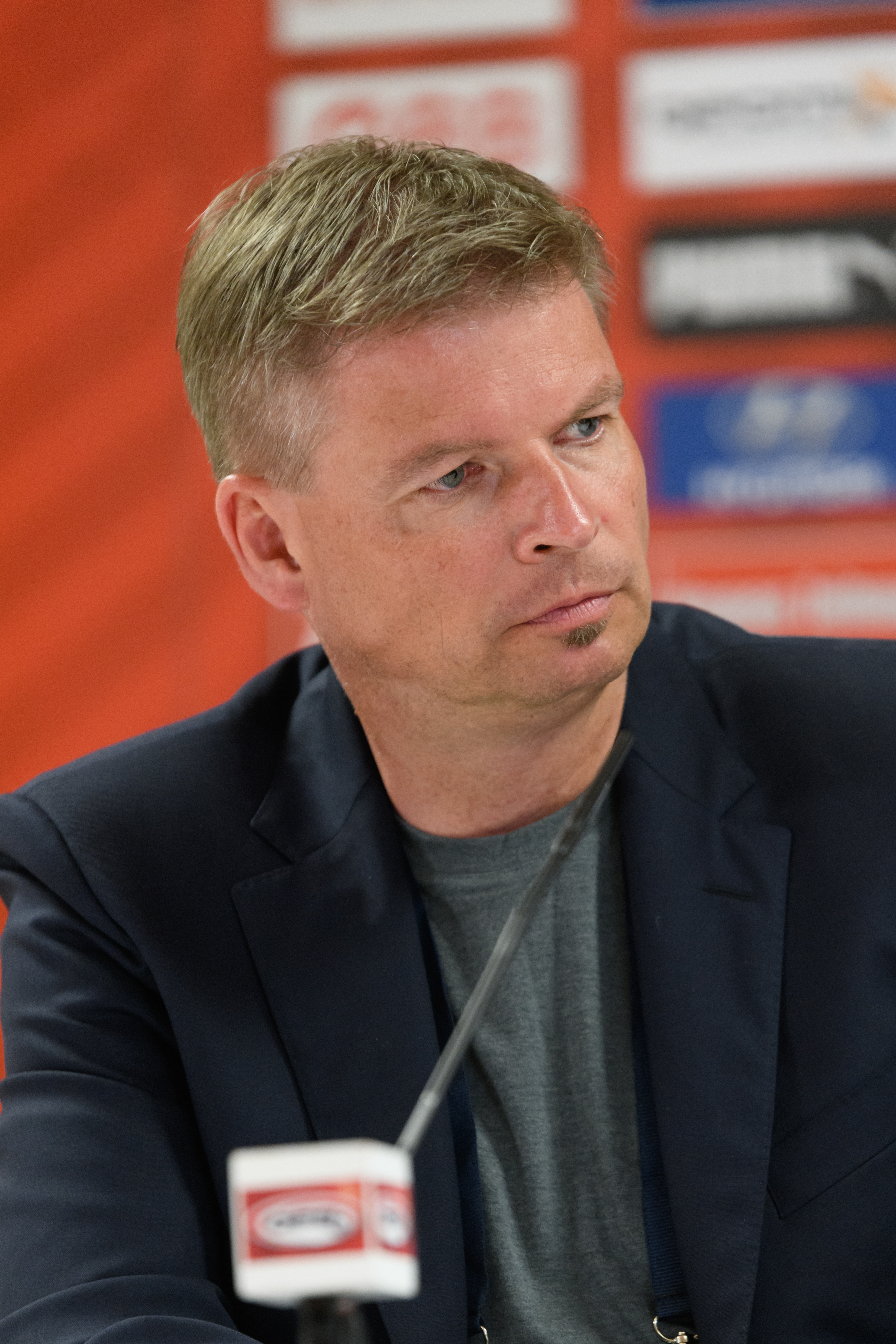 FIFA Friendly Match Austria vs. Germay 2018/06/02 in Klagenfurt/Woerthersee. Picture shows Jens Grittner